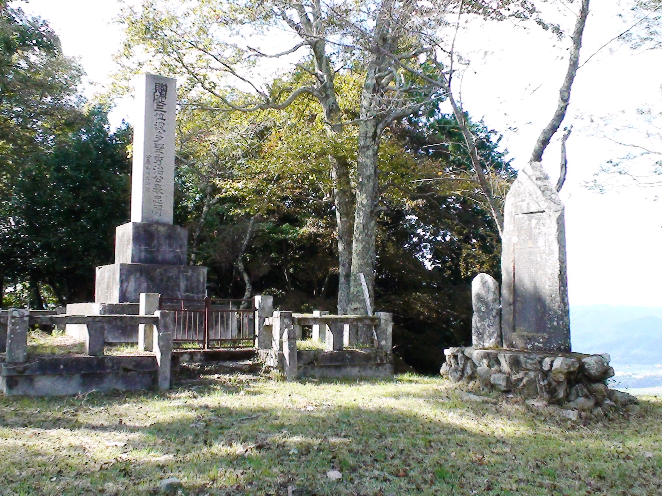 At the ruin of Yagami Castle, on the top of Mount Takashiro, Sasayama, Hyogo, Japan.